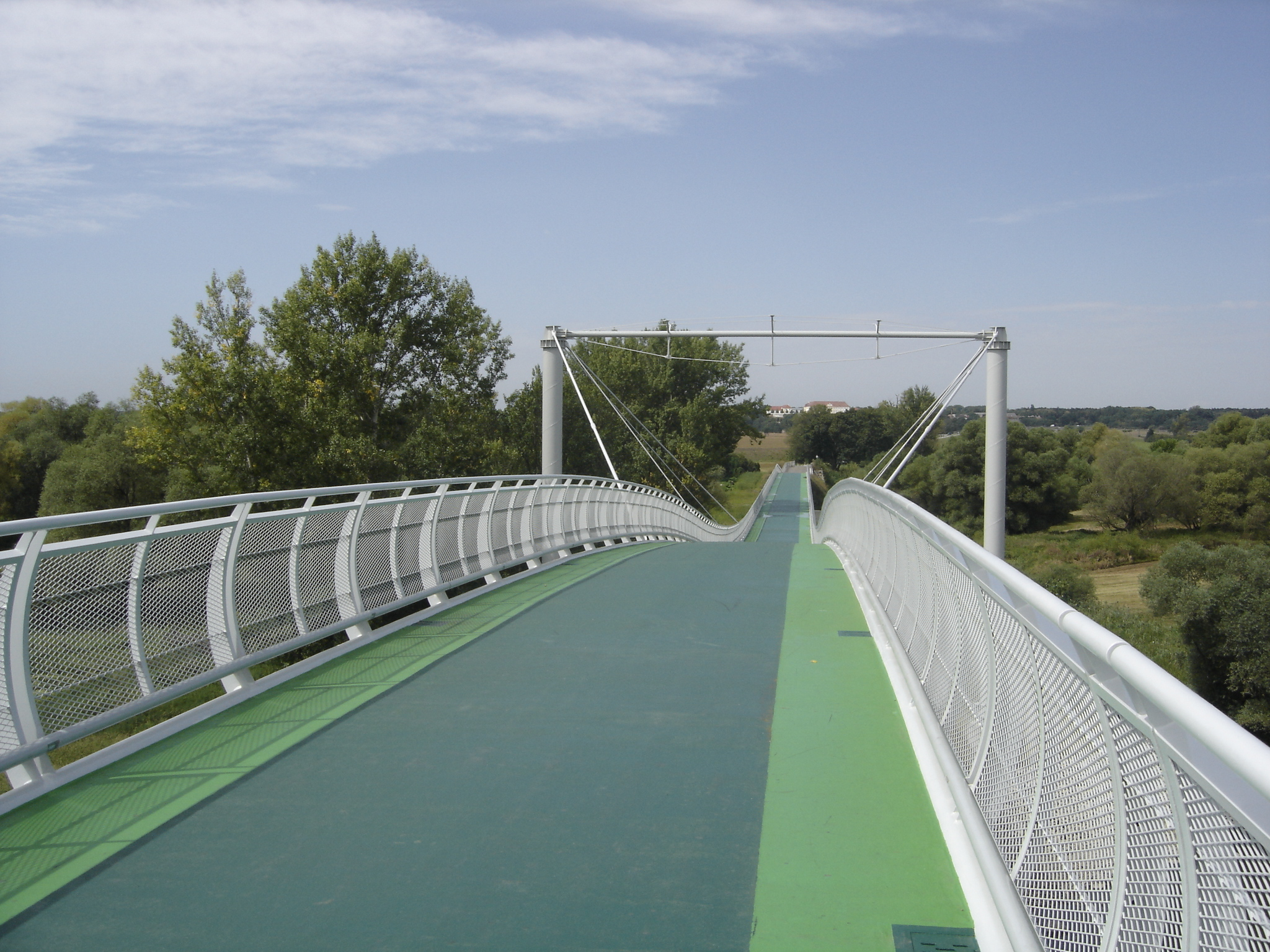 Bridge between Devinska Nova Ves (Bratislava, SK) and Schlosshof (A)